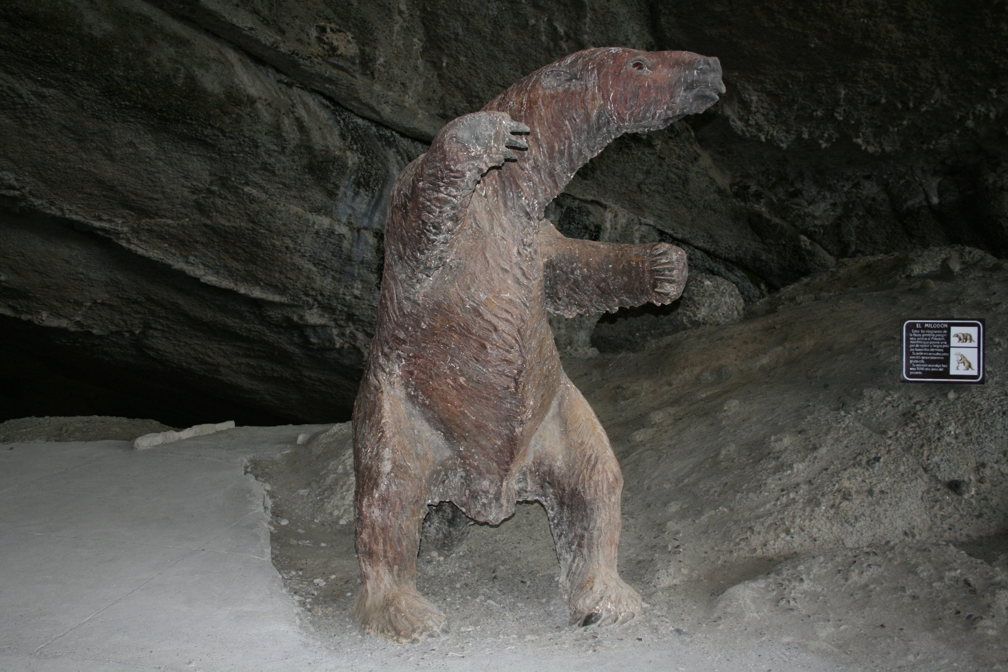 Cave of Milodón, Puerto Natales, Chile